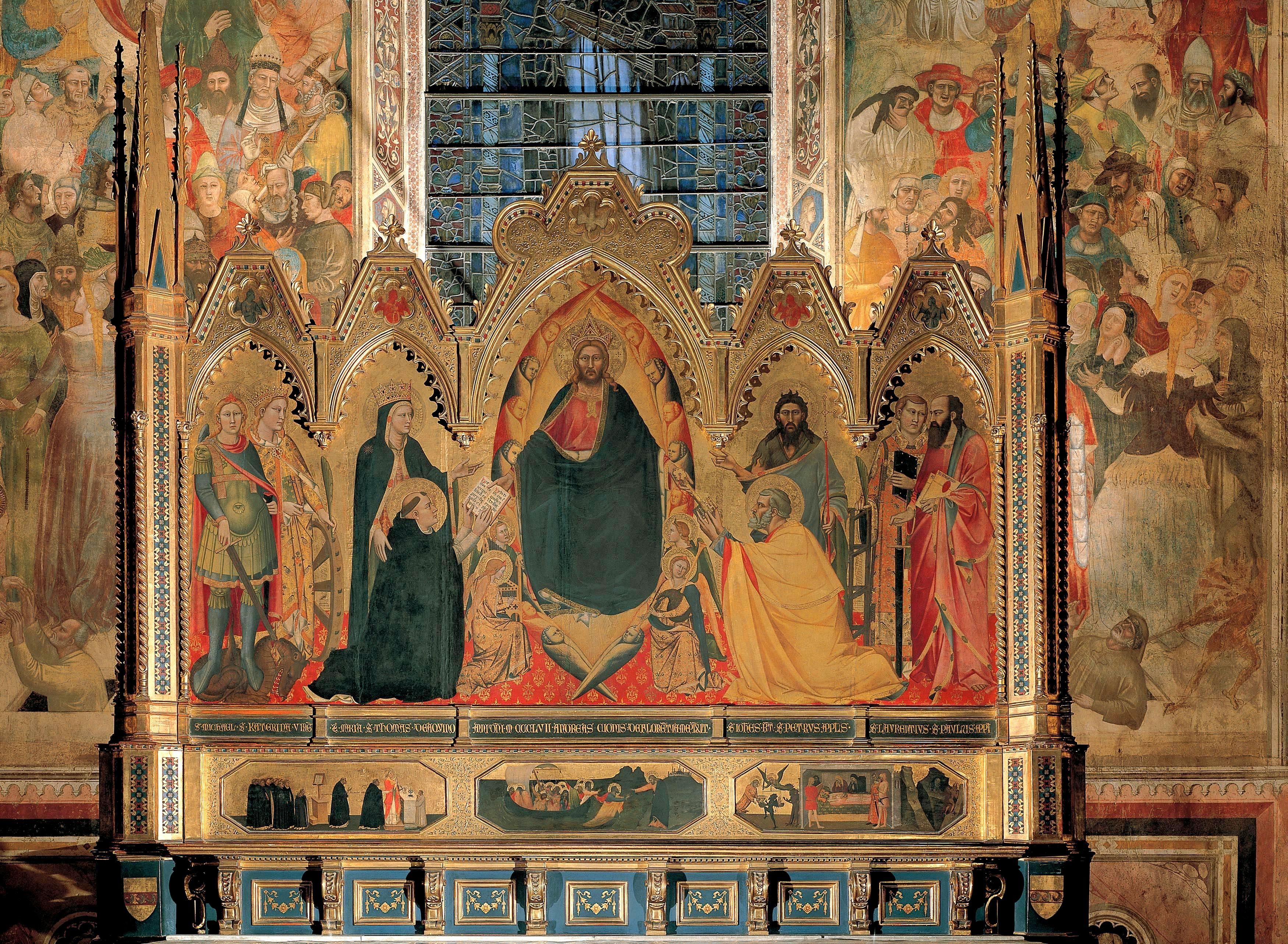 From left to right, the figures represent Saint Michael, Saint Catherine of Alexandria, the crowned Virgin Mary in a Dominican habit who presents her protégé Saint Thomas Aquinas to him, God, Saint Peter (kneeling), John the Baptist. The two on the far right are Saint Lawrence and Saint Paul.